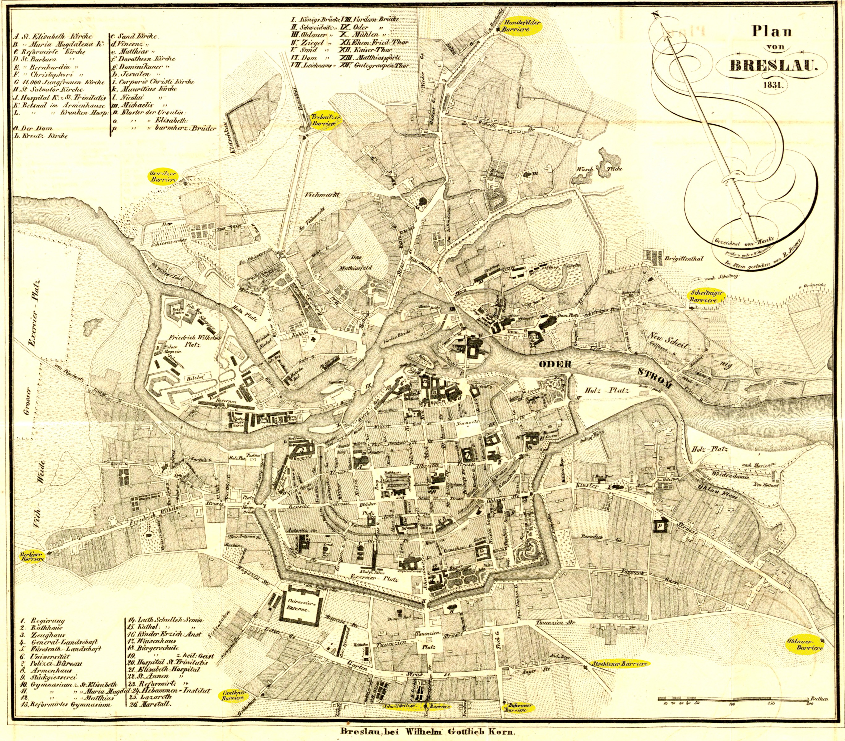 City of Wrocław (1831) with toll-houses